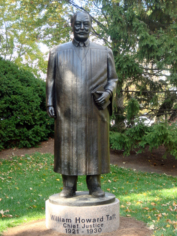 UC Law Taft Statue #2